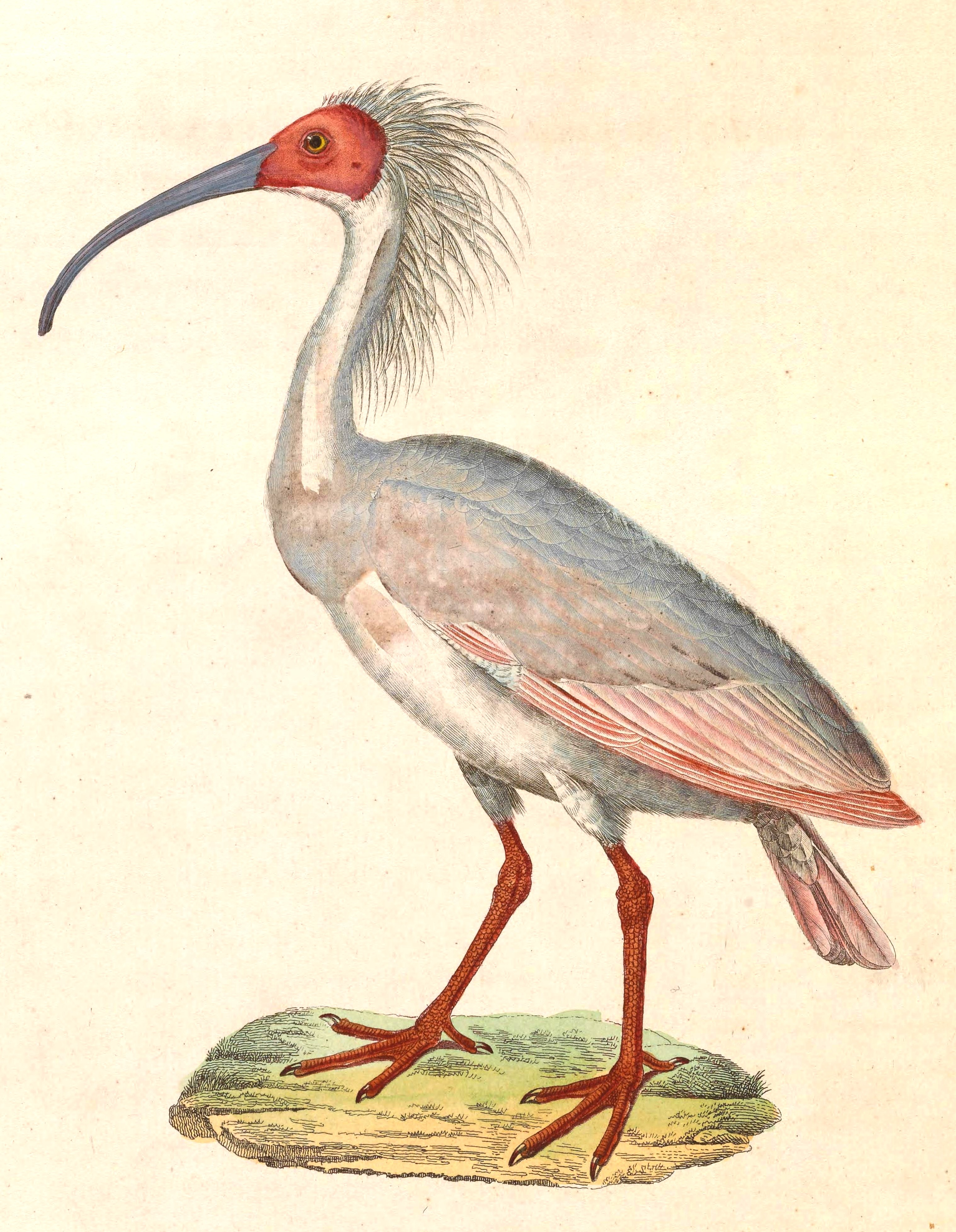 « Ibis nippon » = Nipponia nippon (Crested Ibis) - adult male